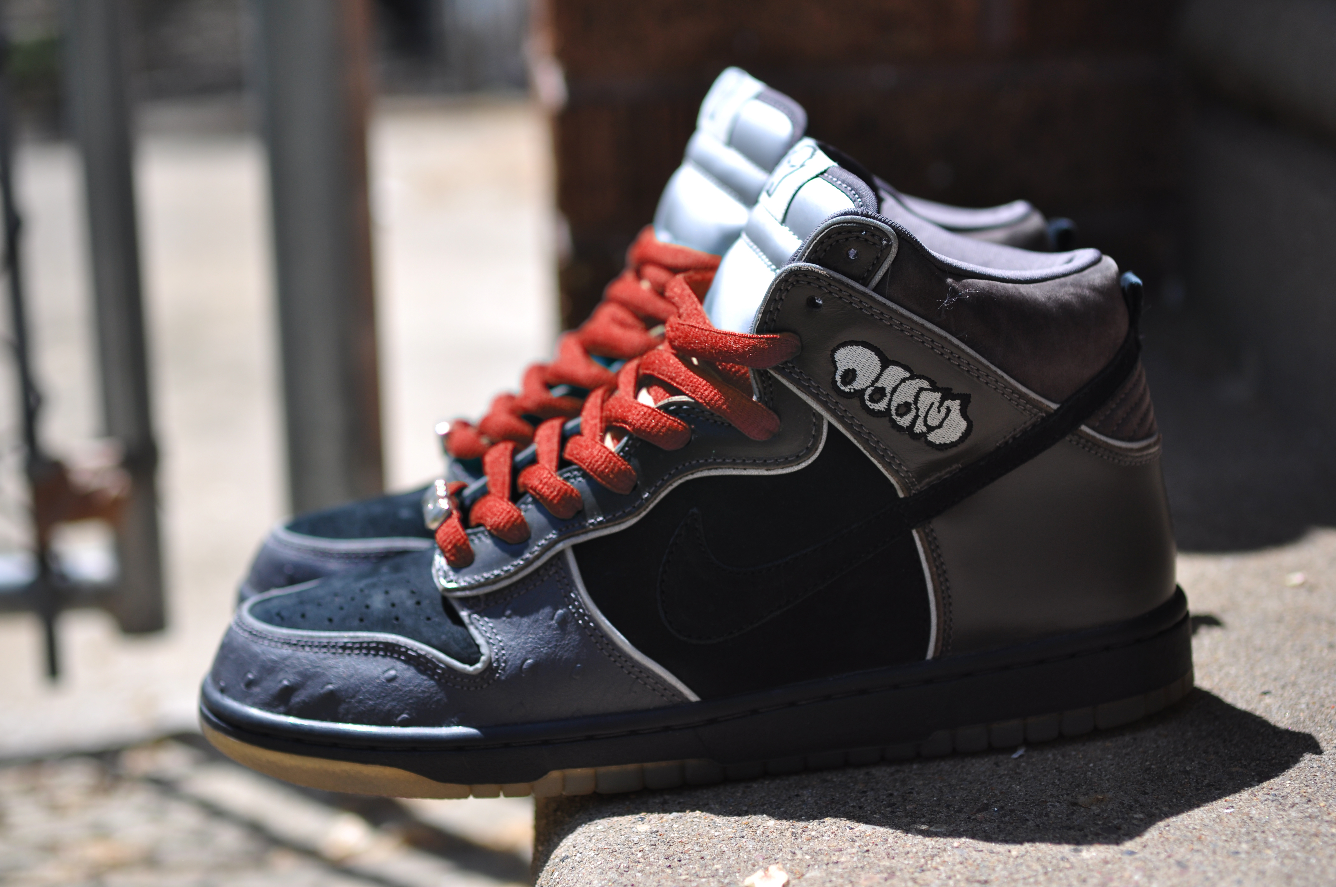 Nike SB Dunk High "MF Doom" sneakers with green laces edited to look like the original red ones.